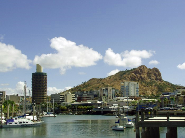 Townsville as viewed from the Museum of Tropical Queensland.